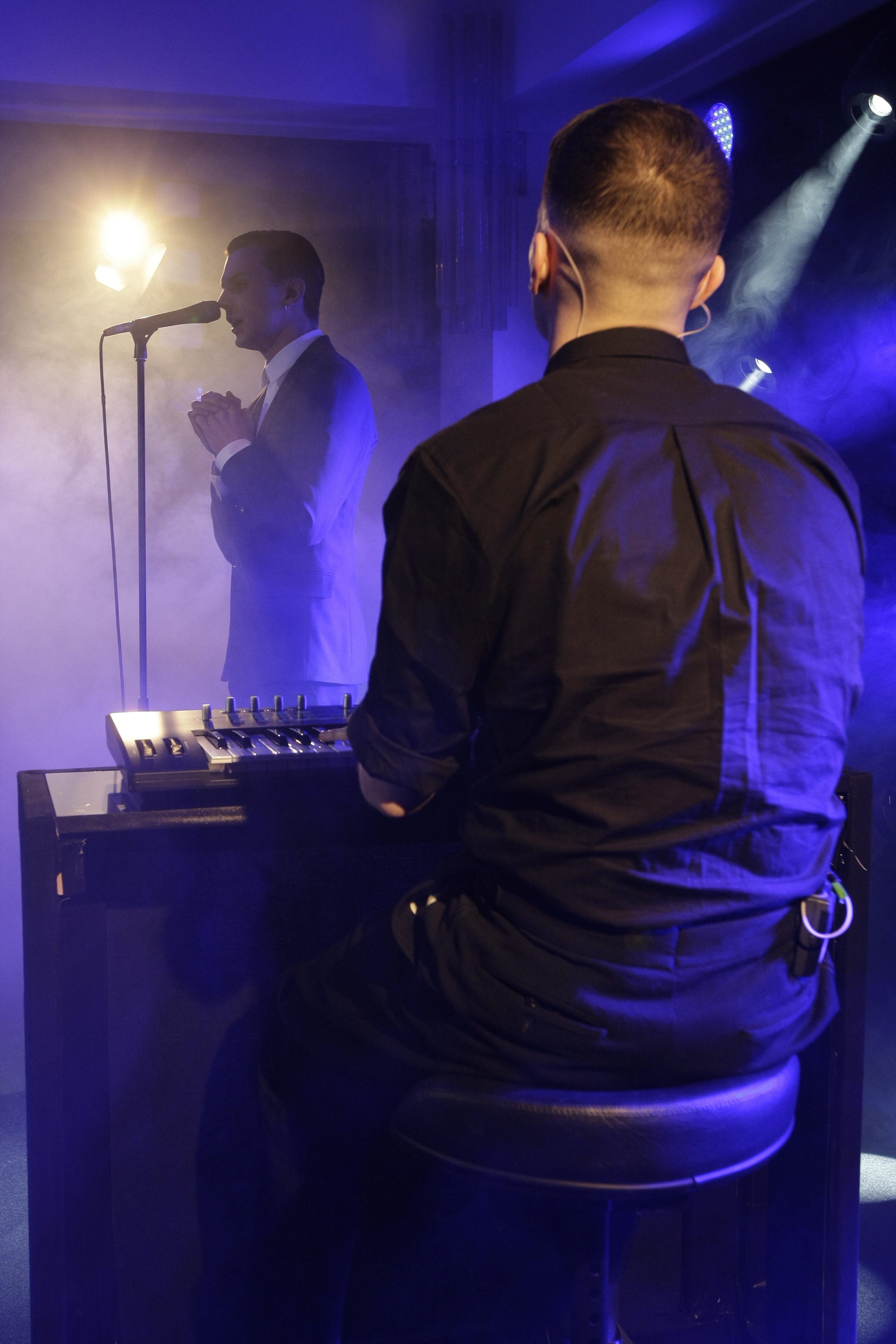 Hurts at MICHALSKY StyleNite